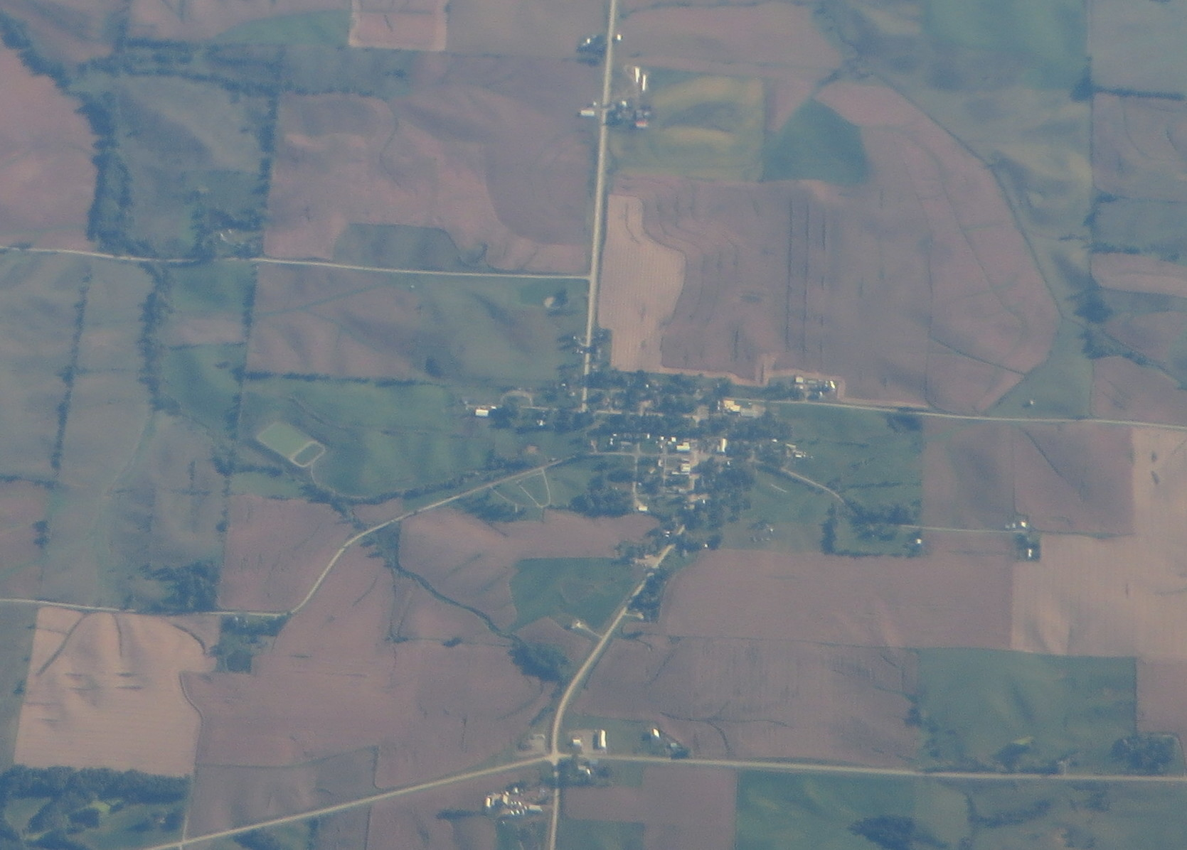 Millersburg is a city in Iowa County, Iowa, United States. The population was 159 at the 2010 census.